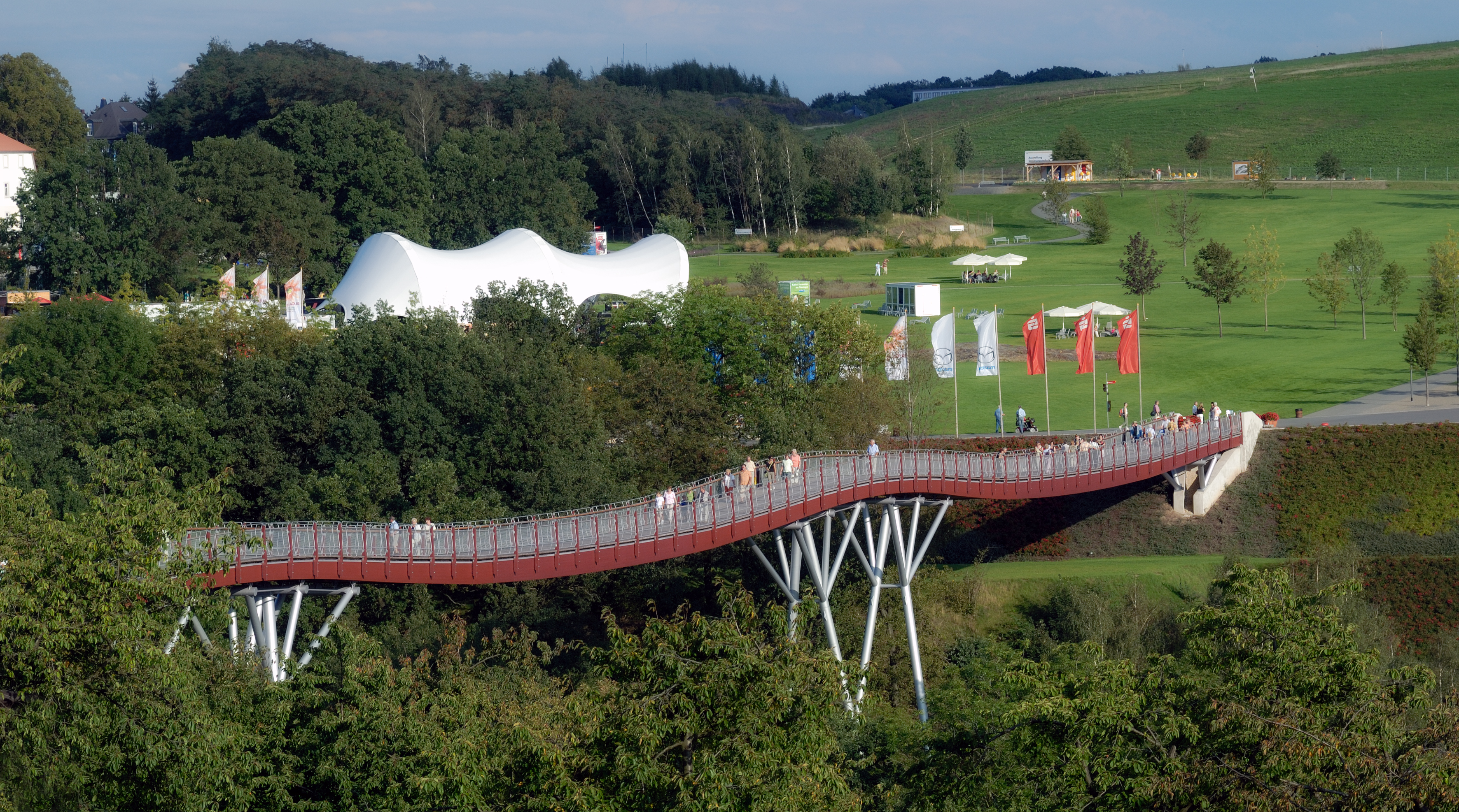 This image shows the bridge "Drachenschwanz" (dragon tail) in the "Neue Landschaft Ronneburg", Germany.